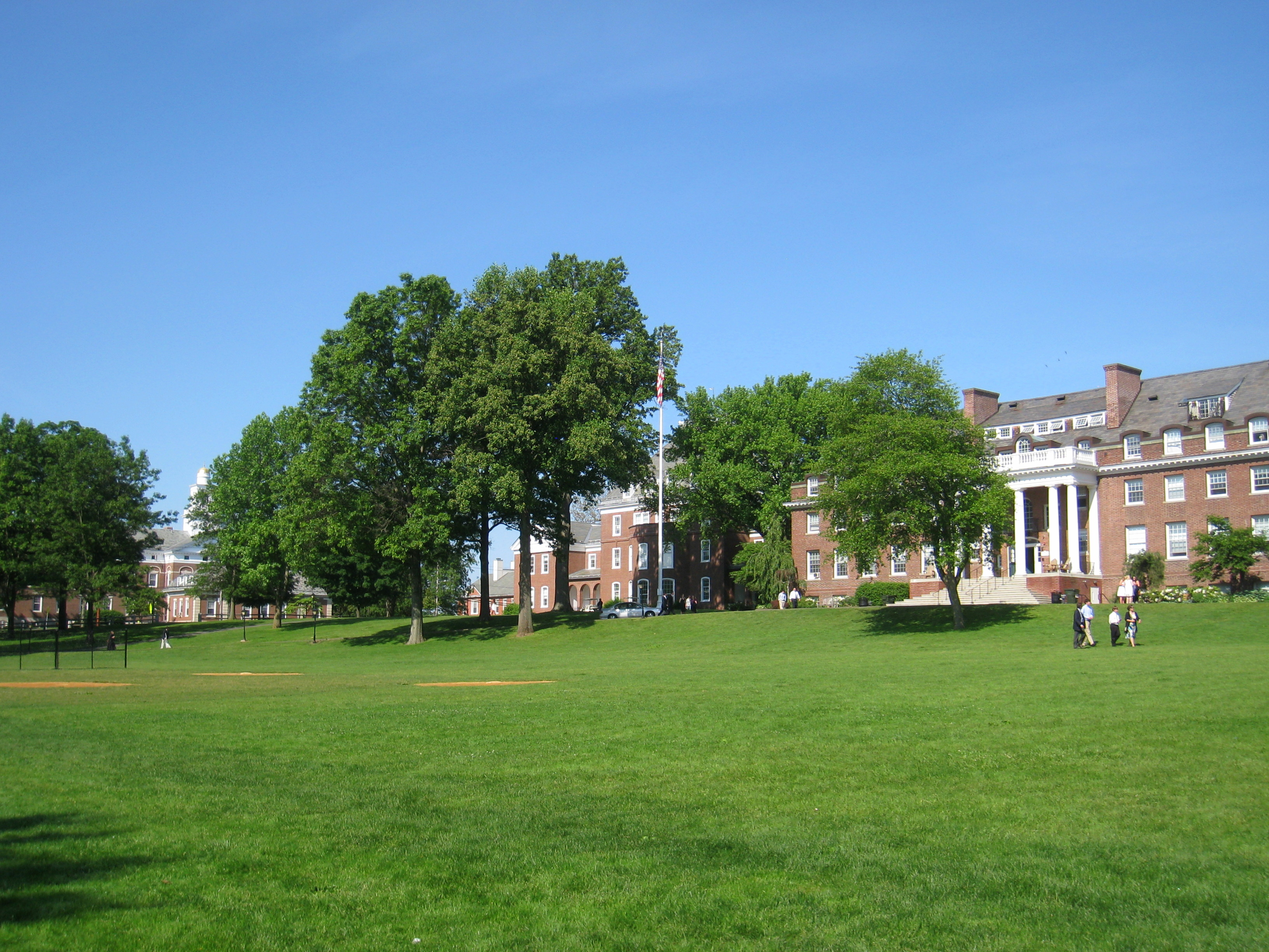 Memorial House (dorm) - Choate Rosemary Hall, Wallingford, Connecticut, USA. Built 1921.